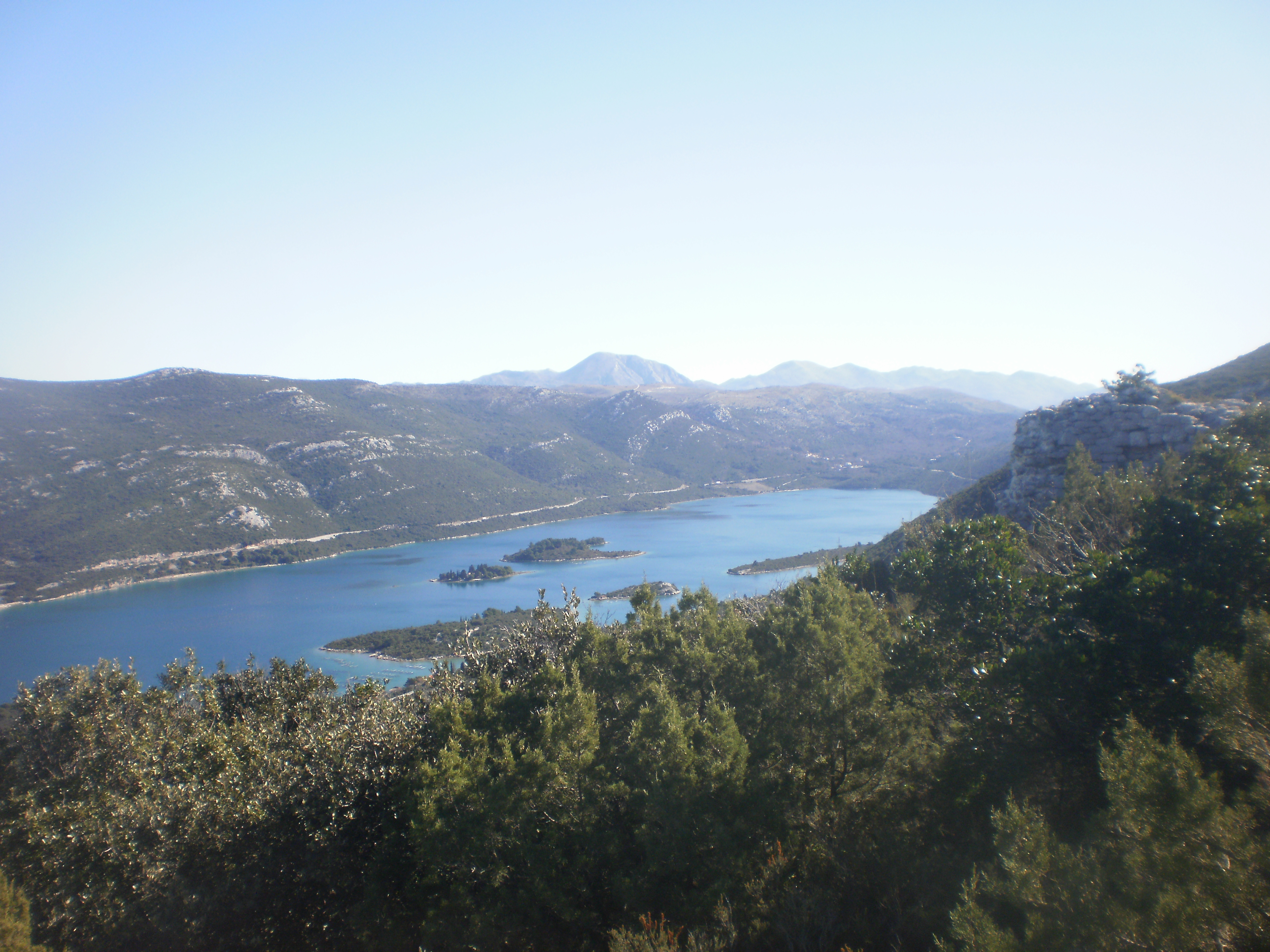 Bay of Mali Ston OLYMPUS DIGITAL CAMERA